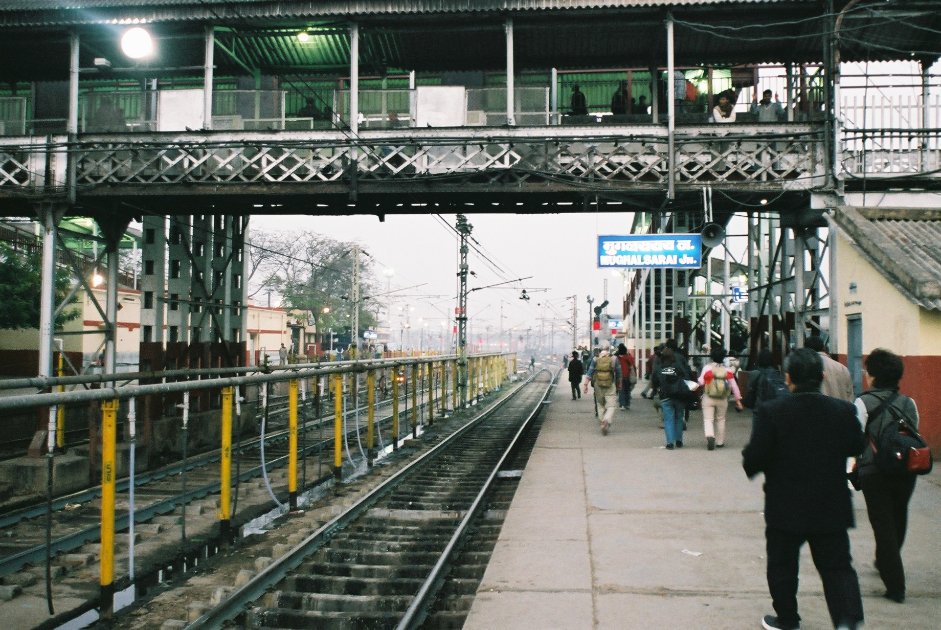 Mughalsarai junction, Mughalsarai, Uttar Pradesh, India